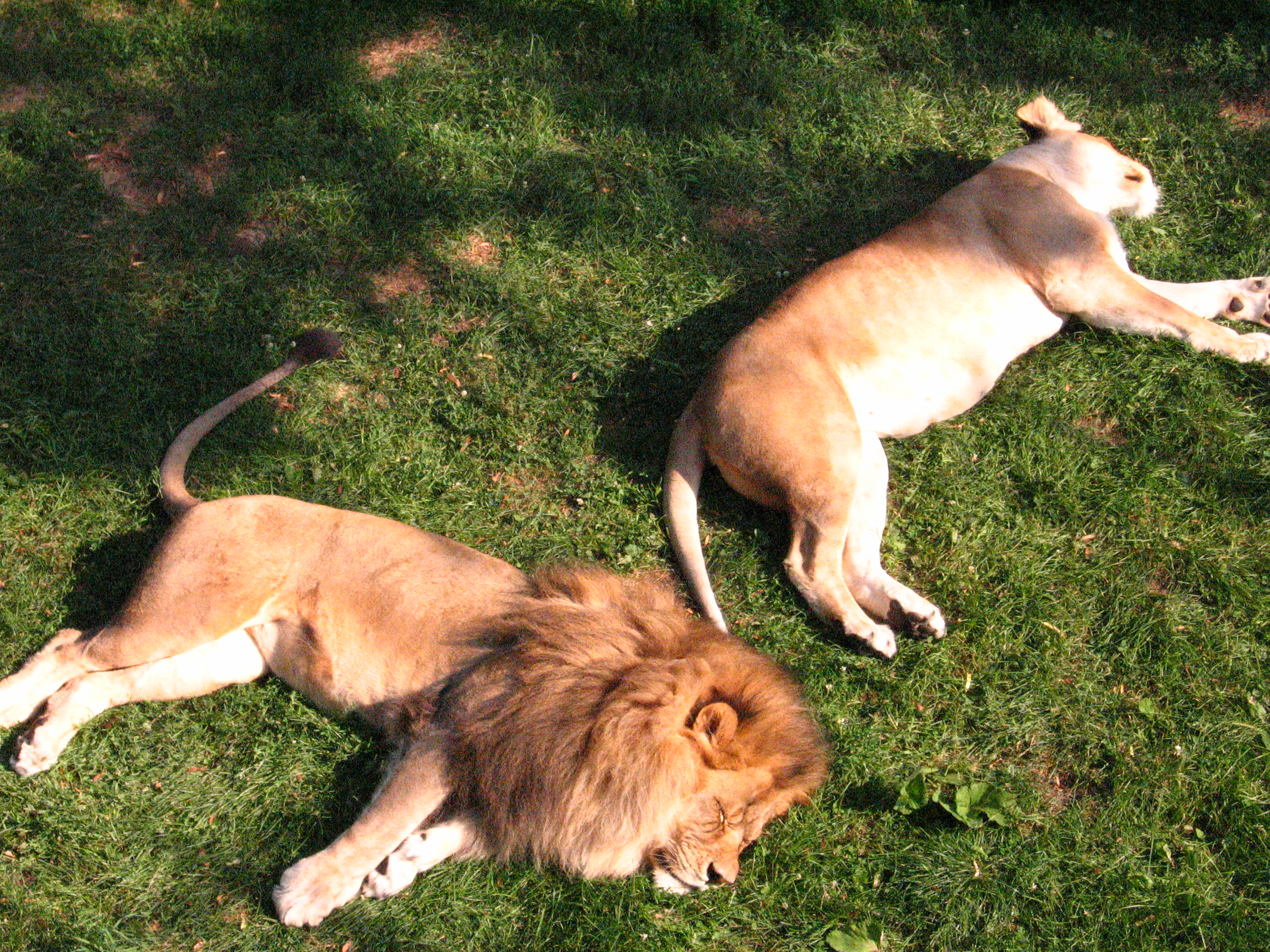 Como Zoo's two lions sleep in their outdoor habitat.